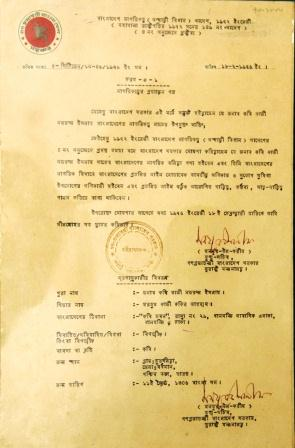 Photo of the Government order conferring on Poet Kazi Nazrul Islam citizenship of Bangladesh in 1976.